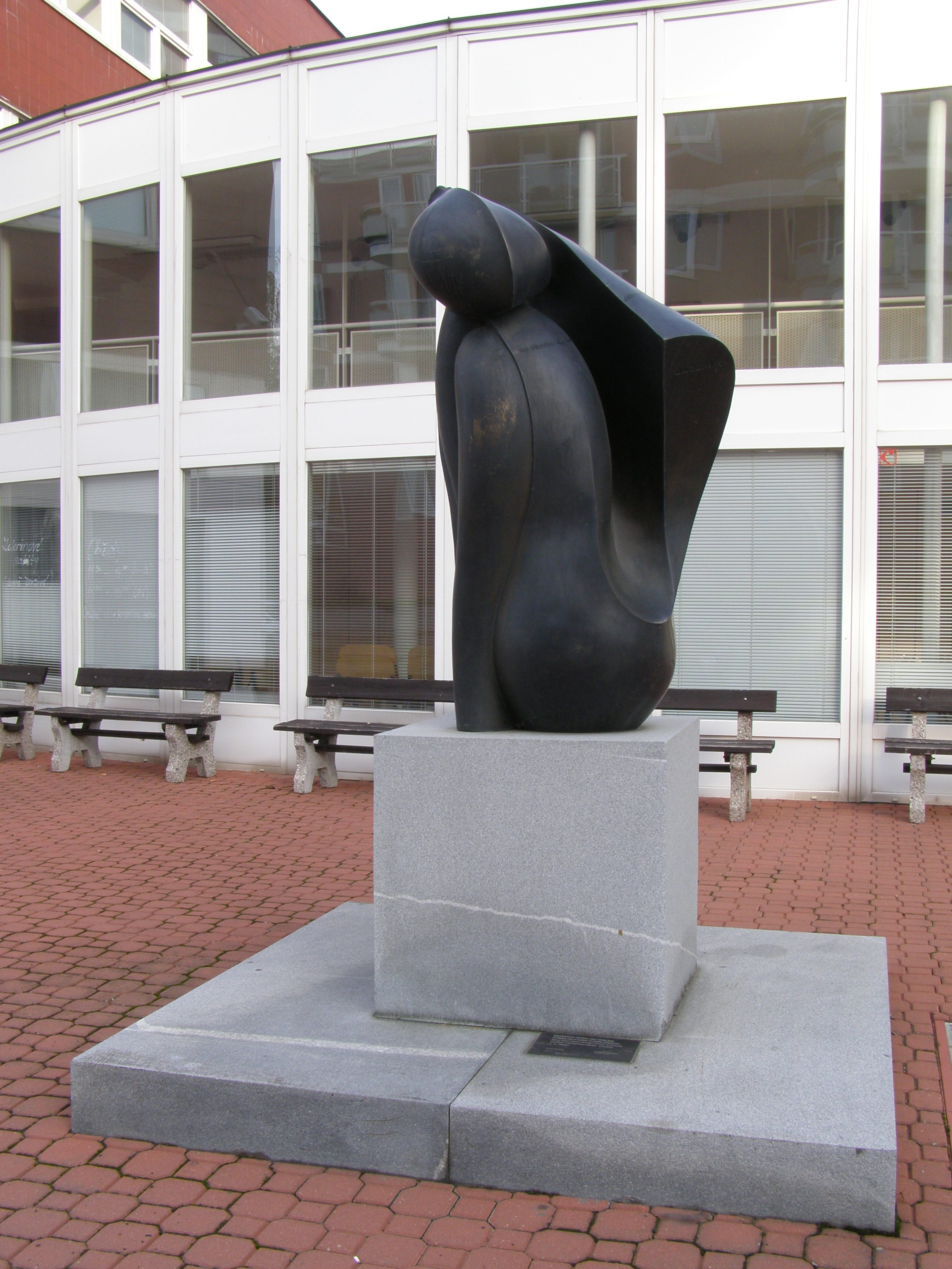 Title of work: "Prague muse"; Material: Bronze; author: Slovenian sculptor A. G. Gaberi; Year: 1998 On a metal plate at the base of the statue is an inscription: The Slovenian association "Harfisično omizje" and sculptor A. G. Gaberi (on June 19, 2000) donated this sculpture "Prague muse" to the Charles University in Prague. It was done as a tribute to the Czech people and a symbol of lasting friendship between Czech and Slovene people. Sponsors: Alpos gradis nova nkbm